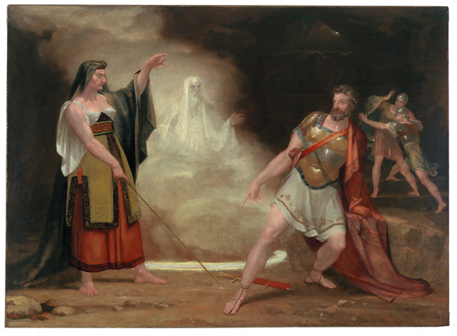 Saul and the Witch of Endor. By Allston, Washington. 1820. Oil on canvas. Canvas: 34 5/16 x 47 1/8 in.; 87.1538 x 119.6975 cm